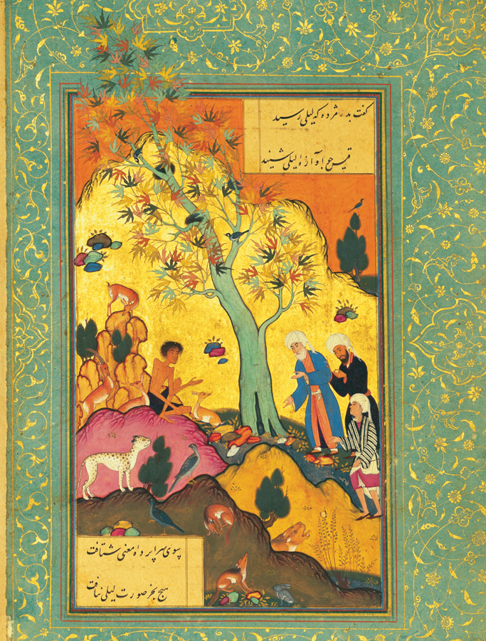 Story of Mejnūn - In the Wilderness